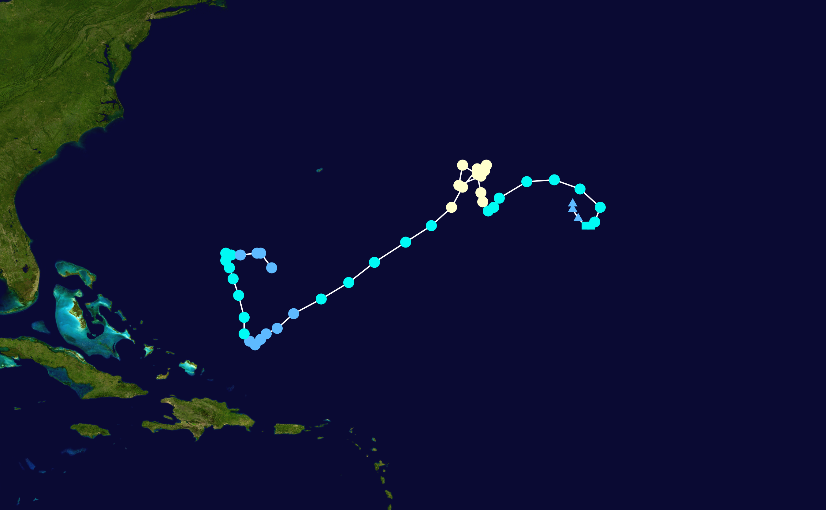 Track map of Hurricane Olga of the 2001 Atlantic hurricane season. The points show the location of the storm at 6-hour intervals. The colour represents the storm's maximum sustained wind speeds as classified in the Saffir–Simpson scale (see below), and the shape of the data points represent the nature of the storm, according to the legend below. Saffir–Simpson scale Tropical depression≤38 mph≤62 km/h Category 3111–129 mph178–208 km/h Tropical storm39–73 mph63–118 km/h Category 4130–156 mph209–251 km/h Category 174–95 mph119–153 km/h Category 5≥157 mph≥252 km/h Category 296–110 mph154–177 km/h Unknown Storm type Tropical cyclone Subtropical cyclone Extratropical cyclone / Remnant low / Tropical disturbance / Monsoon depression